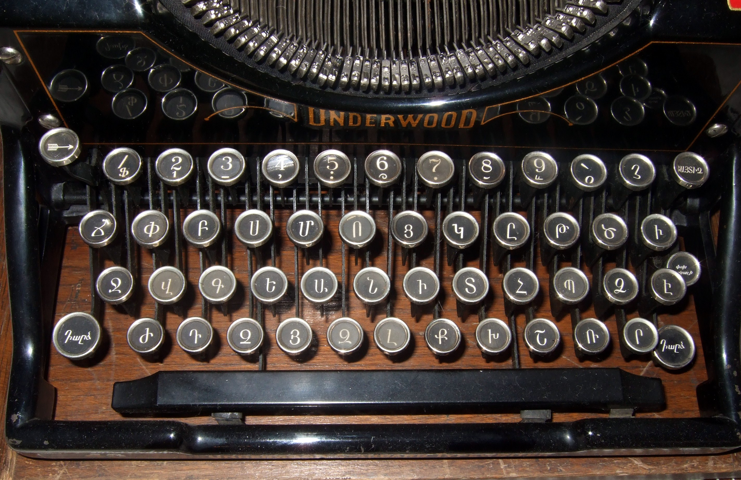 Armenian Underwood typewriter from beginning of 20th century